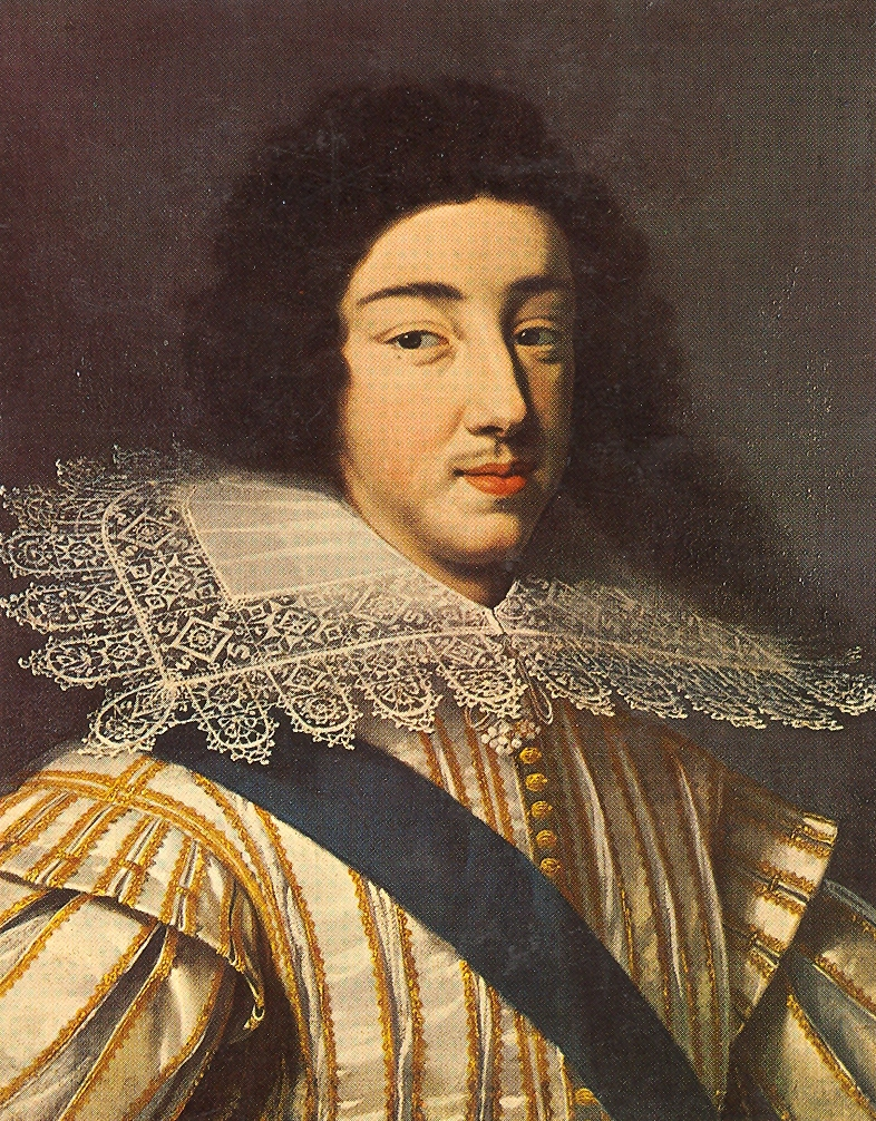 Gaston, Duke of Orléans (1608-1660)